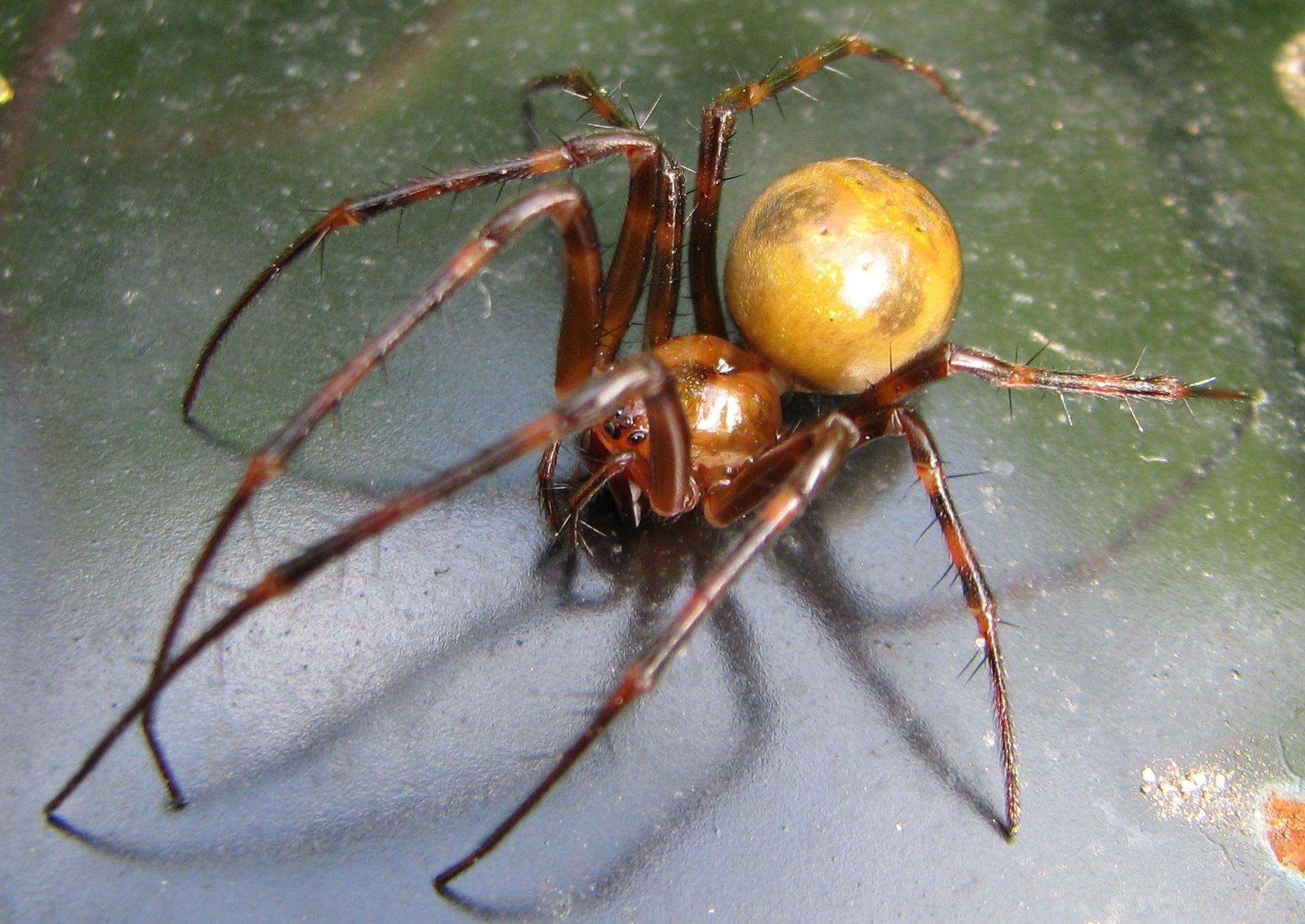 Female Meta menardi